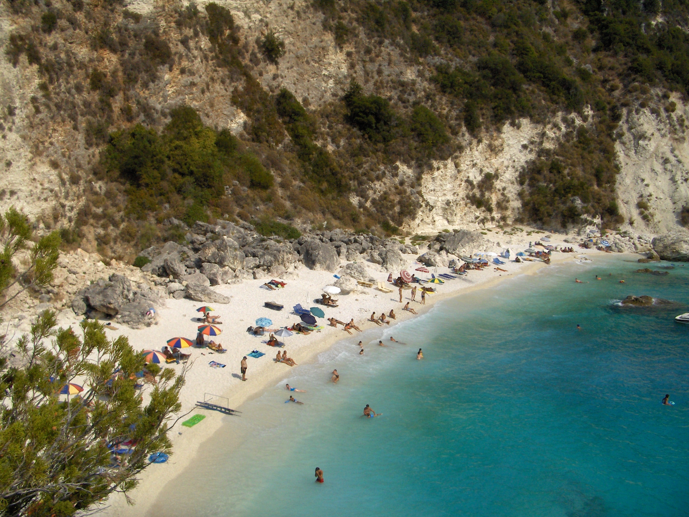 Agiofyli beach in southern Lefkada.